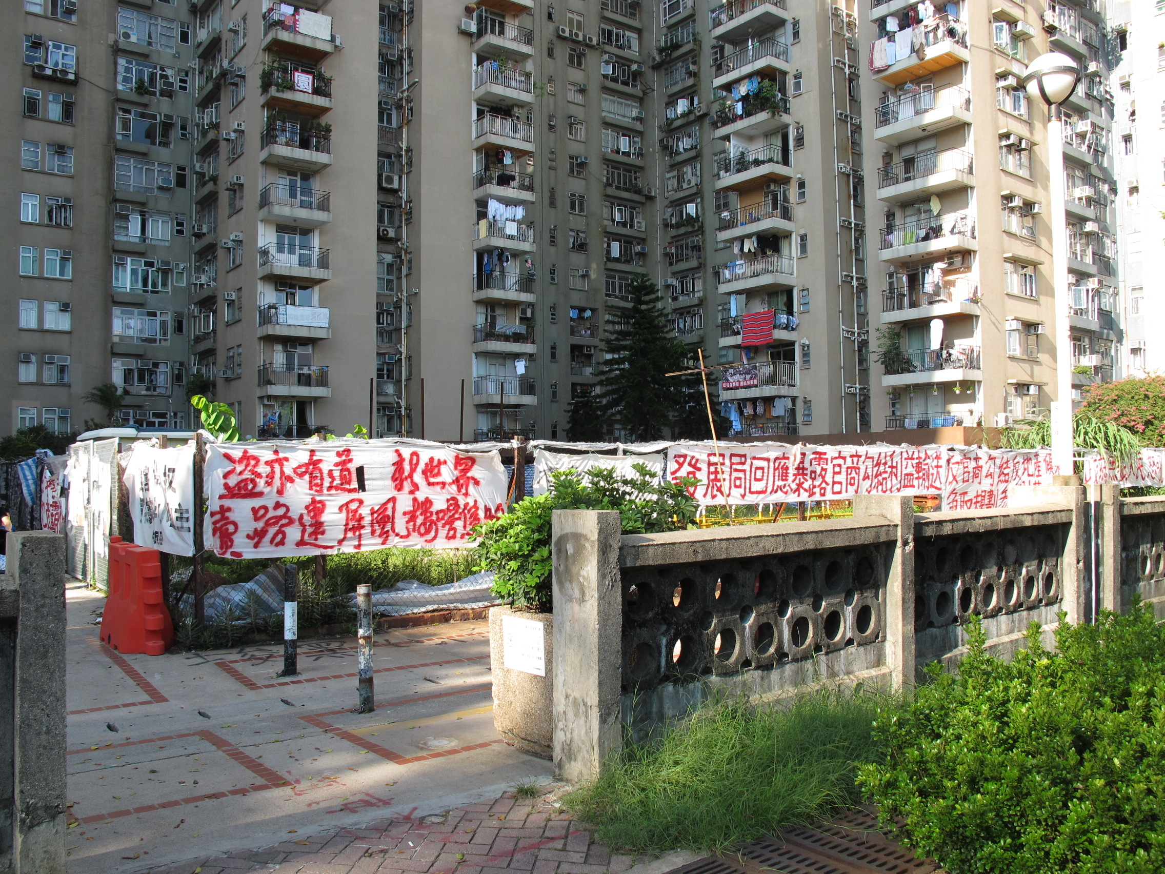 Mei Foo Sun Chuen Construction Site